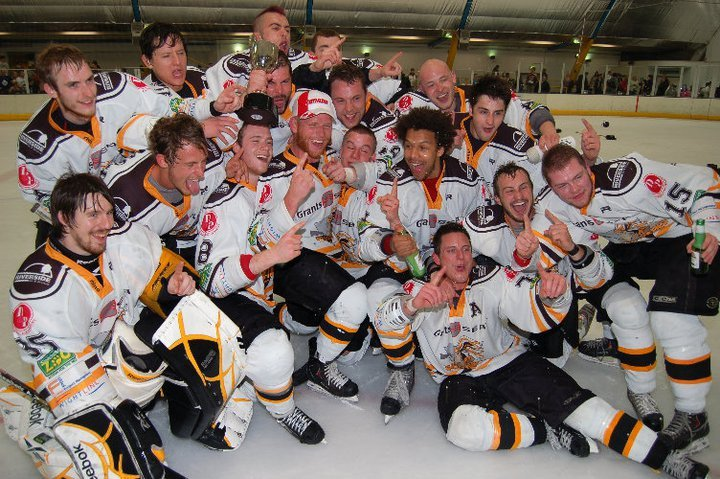 The Chieftains after their play-off win over Wightlink Raiders (Photo by Ian Snoding - Chieftains photographer)